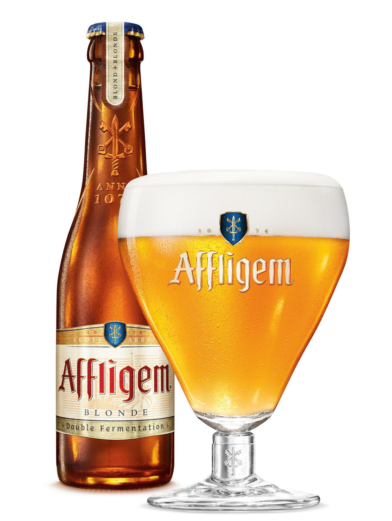 Affligem Blonde beer with glass and bottle. New identity by Heineken 2013.